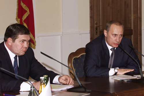 KRASNOYARSK. President Putin with governor of Krasnoyarsk Region Alexander Lebed, attending a meeting to discuss the socio-economic development of the Krasnoyarsk Region.